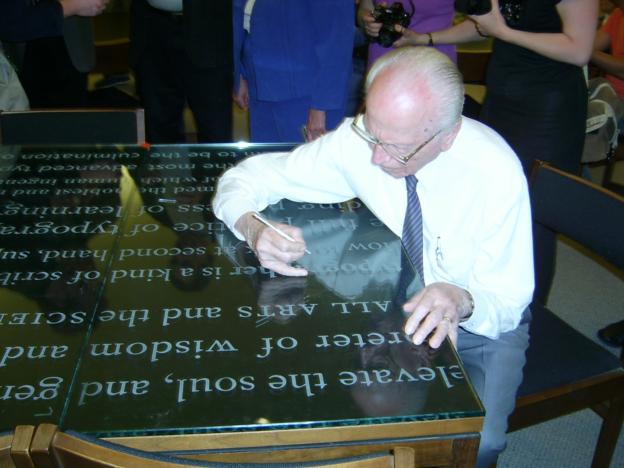 Hermann Zapf signing one of the test glass panels (which he designed) for the Lawson center at RIT at a ceremony 11 May 2007 Taken by me, 11 May 2007